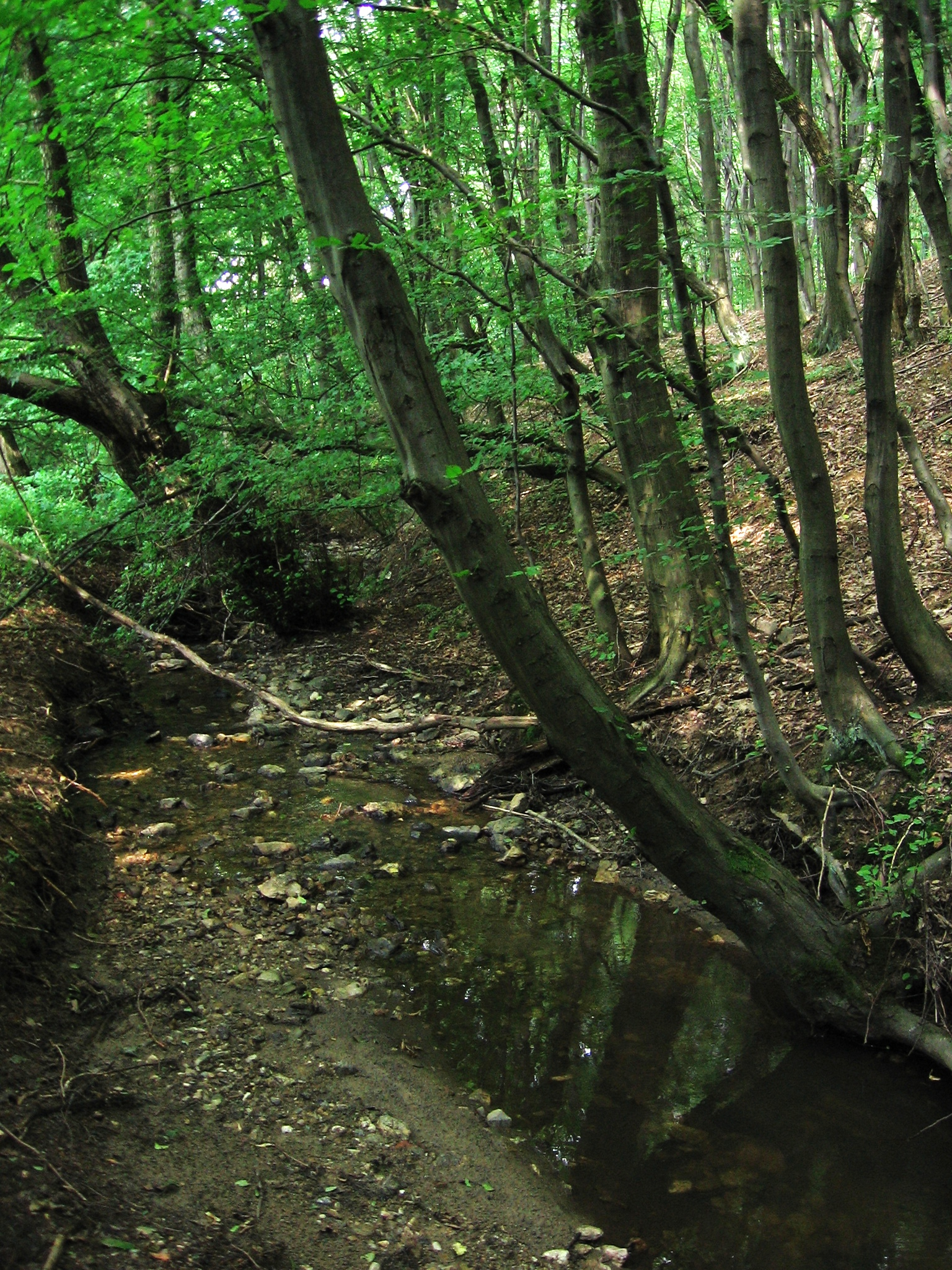 Jastrabský potok creek (tributary of the Bebrava) on the eastern slopes of the Považský Inovec Mts., Slovakia. South of the Trenčianske Jastrabie.